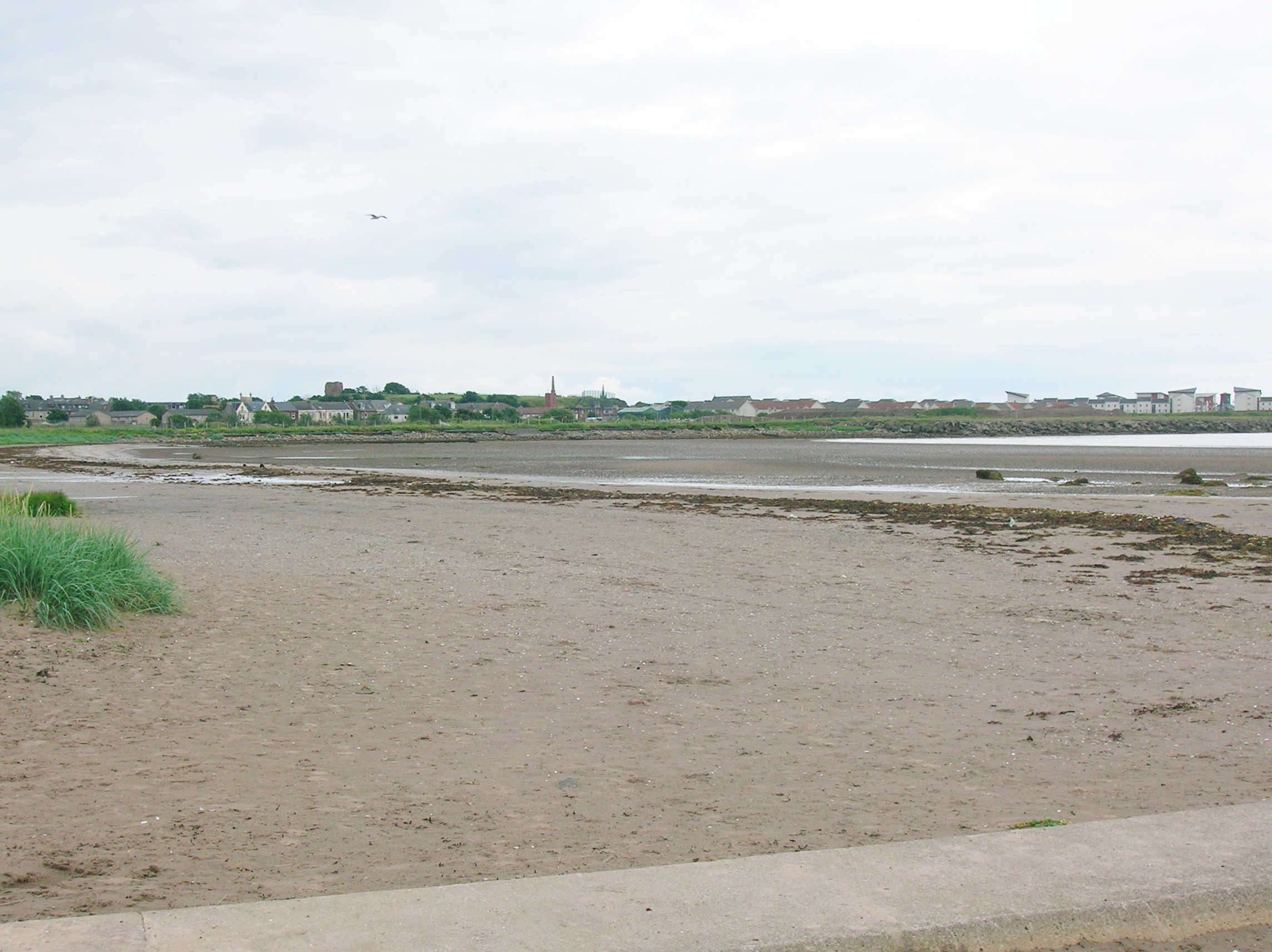 Ardrossan North Bay, North Ayrshire, Scotland. Site of the murder of the 10th Earl of Eglinton in 1769'